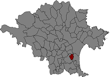 Location of Vilamacolum in Alt Empordà